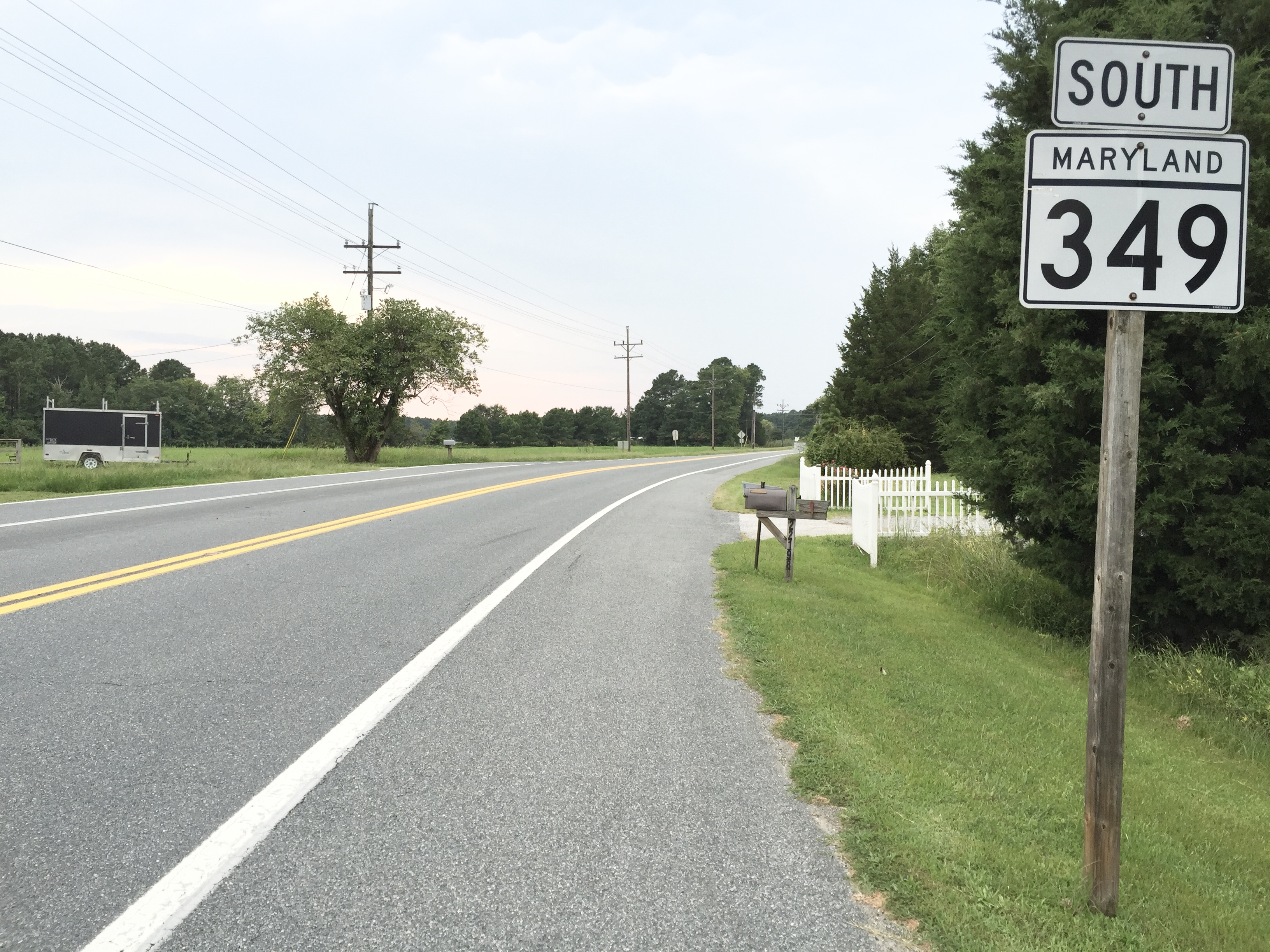 View south along Maryland State Route 349 (Nanticoke Road) at Maryland State Route 352 (Capitola Road) in Coxs Corner, Wicomico County, Maryland